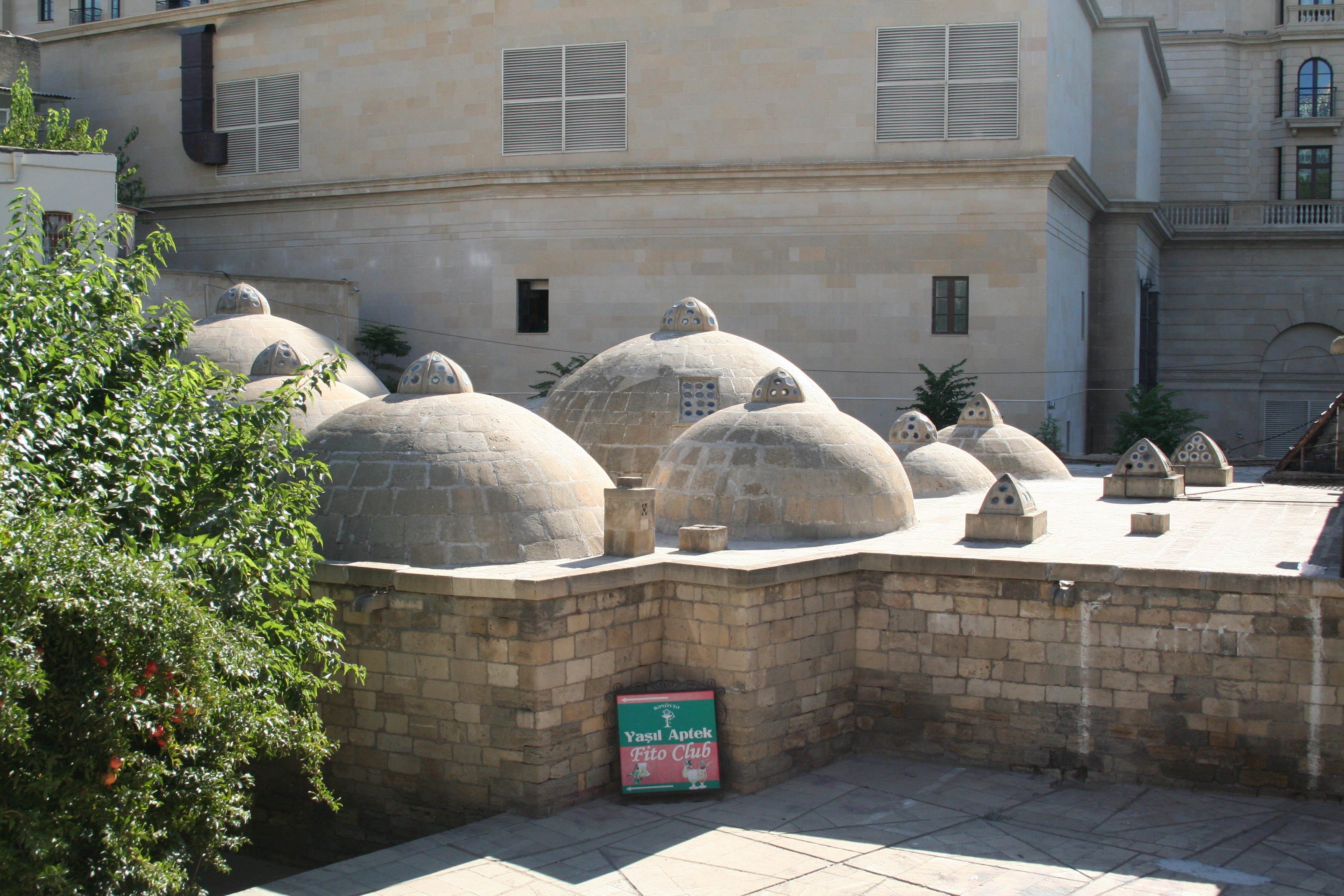 Gasimbey bath